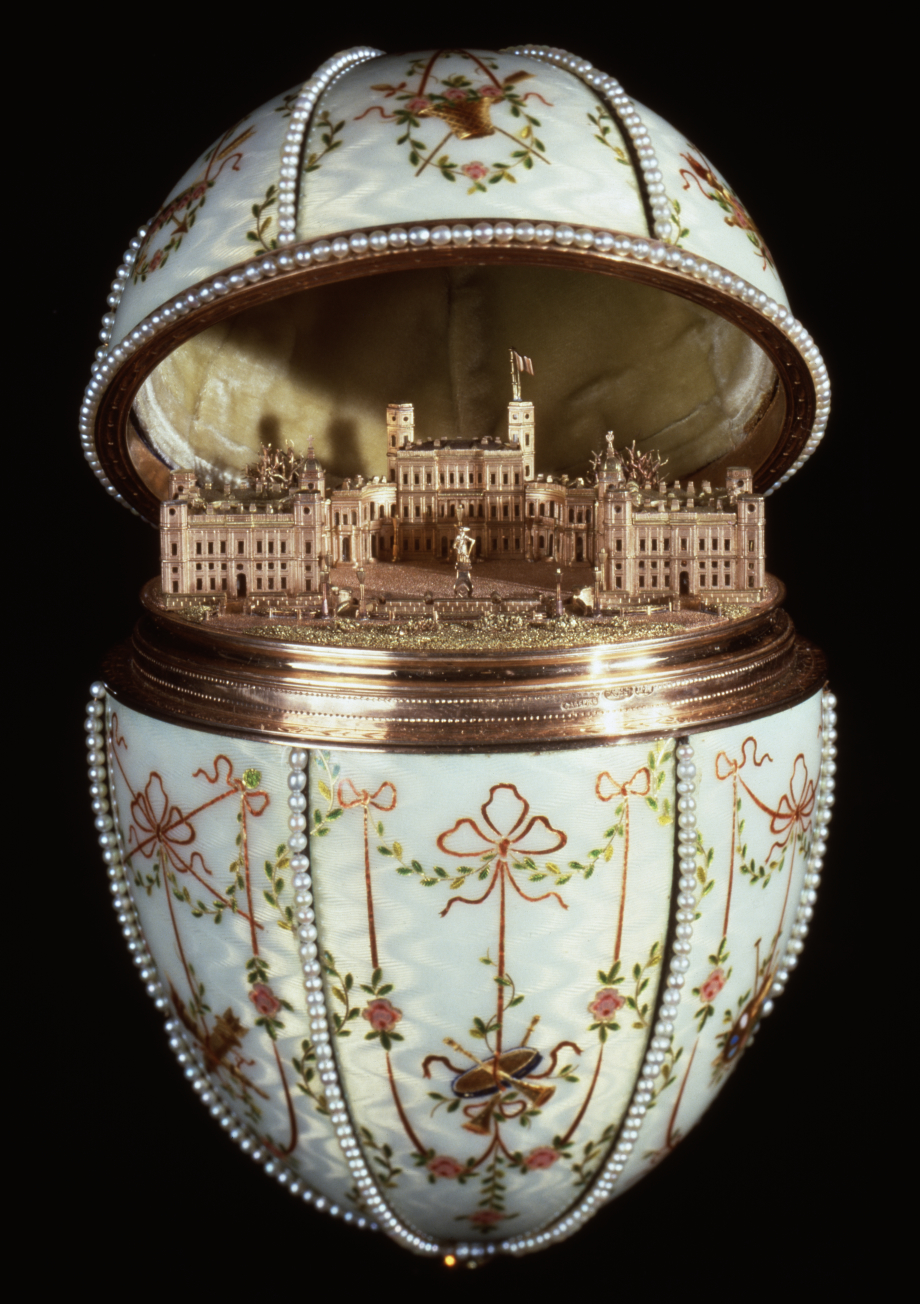 Fabergé's revival of 18th-century enameling techniques, including the application of multiple layers of translucent enamel over "guilloché," or mechanically engraved gold, is demonstrated in the shell of the egg. When opened, the egg reveals a miniature replica of the Gatchina Palace, the Dowager Empress's principal residence outside St. Petersburg. So meticulously did Fabergé's workmaster, Mikhail Perkhin, execute the palace that one can discern such details as cannons, a flag, a statue of Paul I (1754-1801), and elements of the landscape, including parterres and trees. Continuing a practice initiated by his father, Alexander III, Tsar Nicholas II presented this egg to his mother, the dowager empress Marie Fedorovna, on Easter 1901. The egg opens to reveal as a surprise a miniature gold replica of the palace at Gatchina, located 30 miles southwest of St. Petersburg. Built for Count Grigorii Orlov, the palace was acquired by Tsar Paul I and served as the winter residence for Alexander III and Marie Fedorovna.